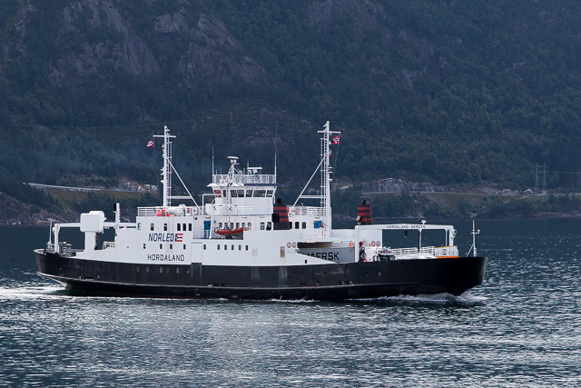 MF Hordaland enroute from Åsnes to Gjermundshavn.